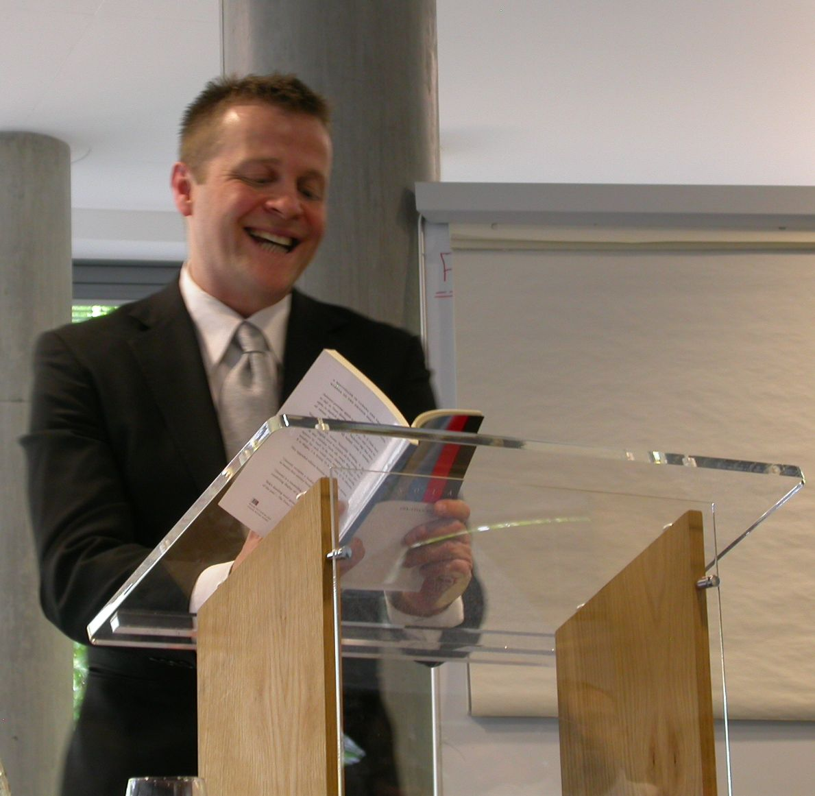 Christian Bok reading from his own work Eunoia at University of York 19 May 2011. Bok gave the talk as part of his work as artist-in-residence at Shandy Hall working on experimental literature and Laurence Sterne.